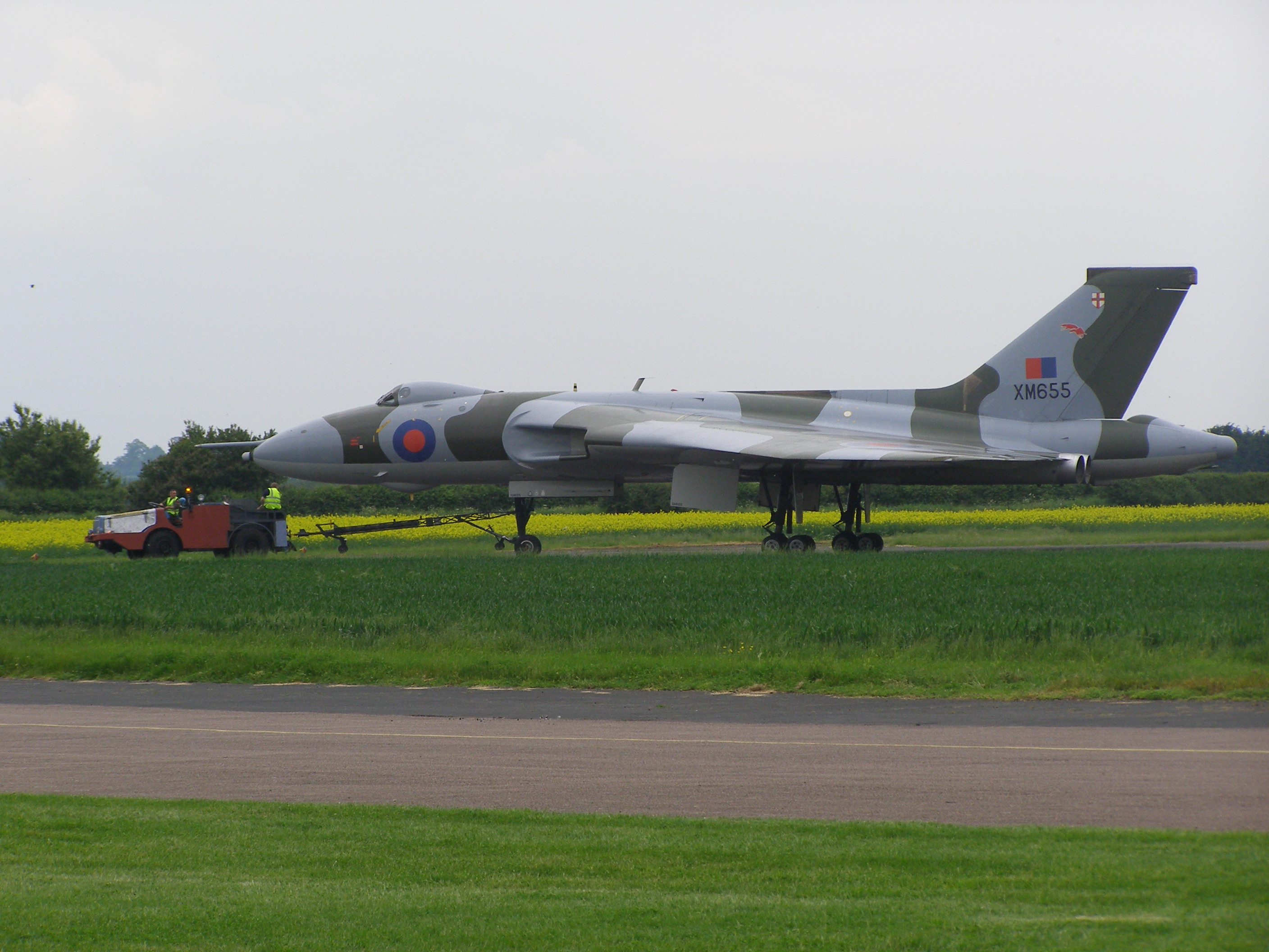 Avro Vulcan XM655 preserved at Wellesbourne Mountford airfield, England